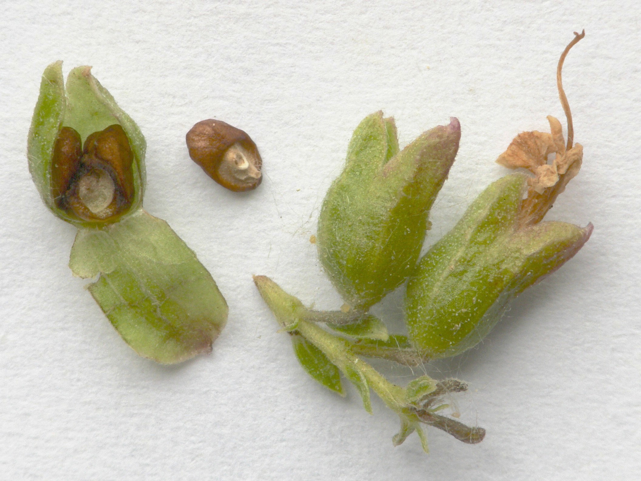 Rosemary seeds